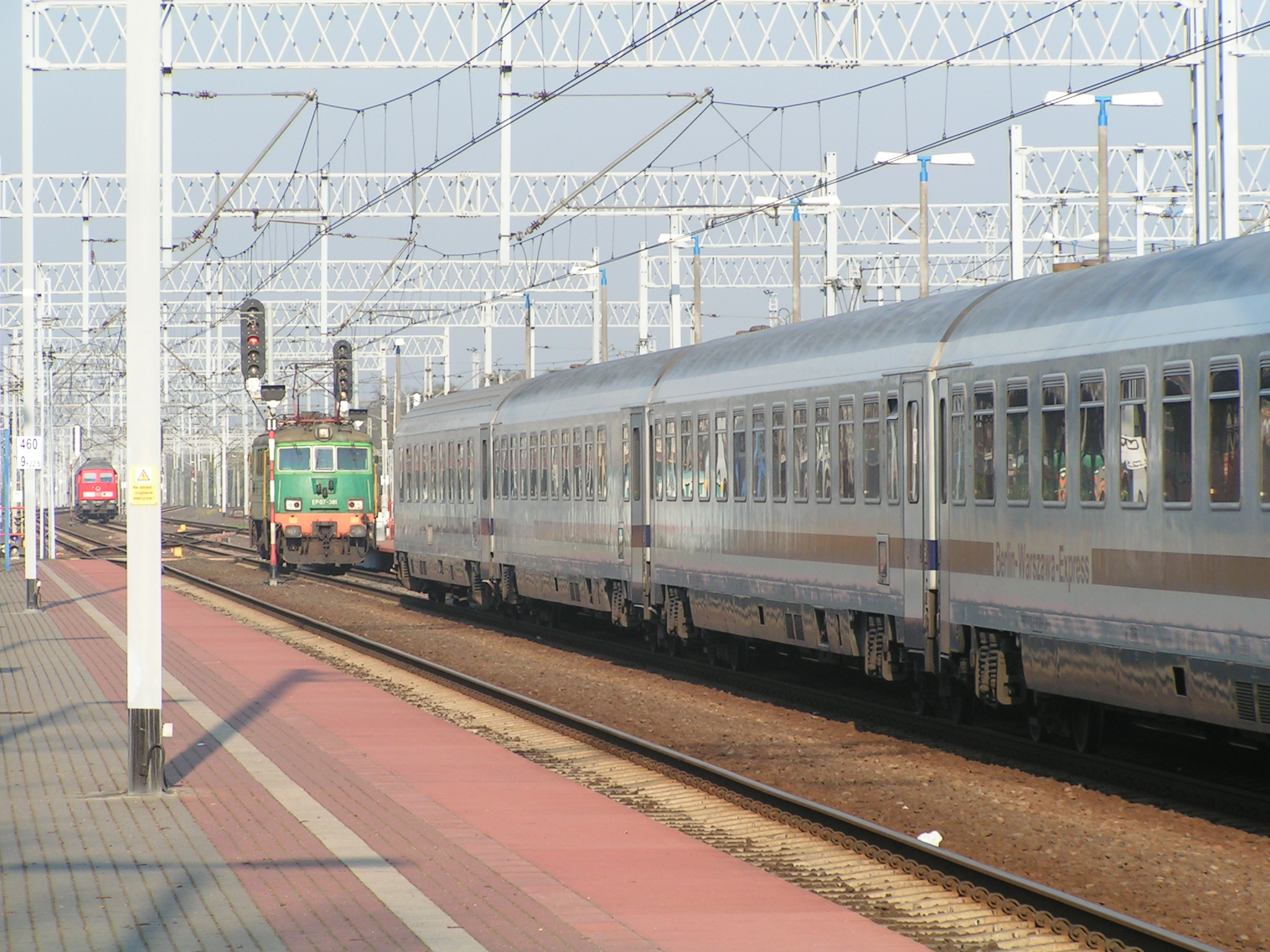 Berlin-Warszawa-Express, change of locomotives. Rzepin train station.